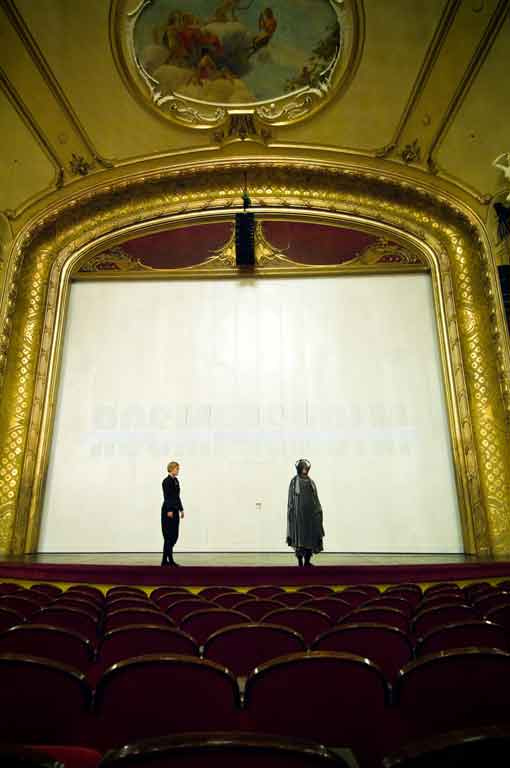 One of the blinded visitors with personal guide on the stage of Nationaltheatret, Oslo